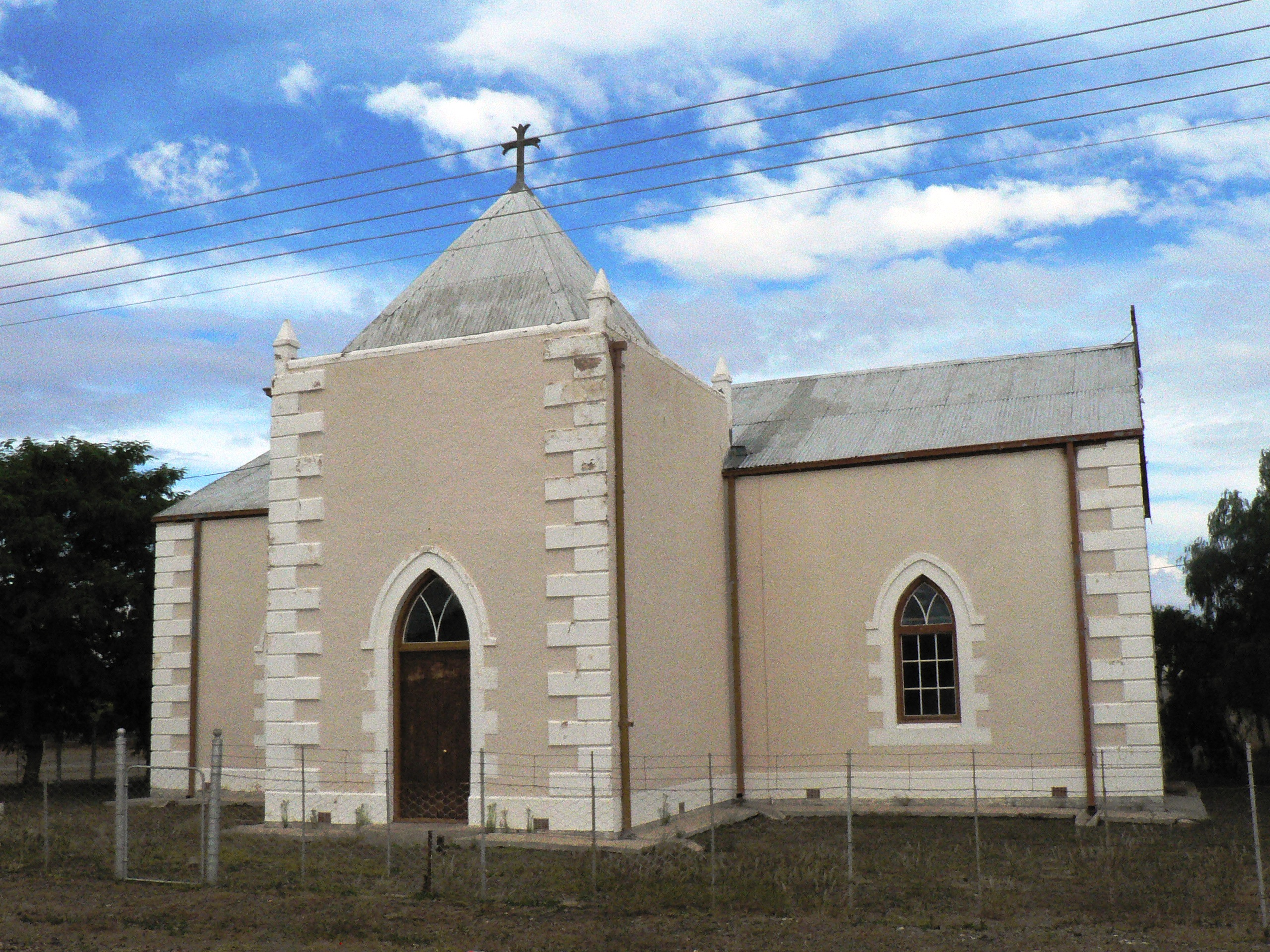 This media shows a South African Protected Site with SAHRA file reference 9/2/043/0010.